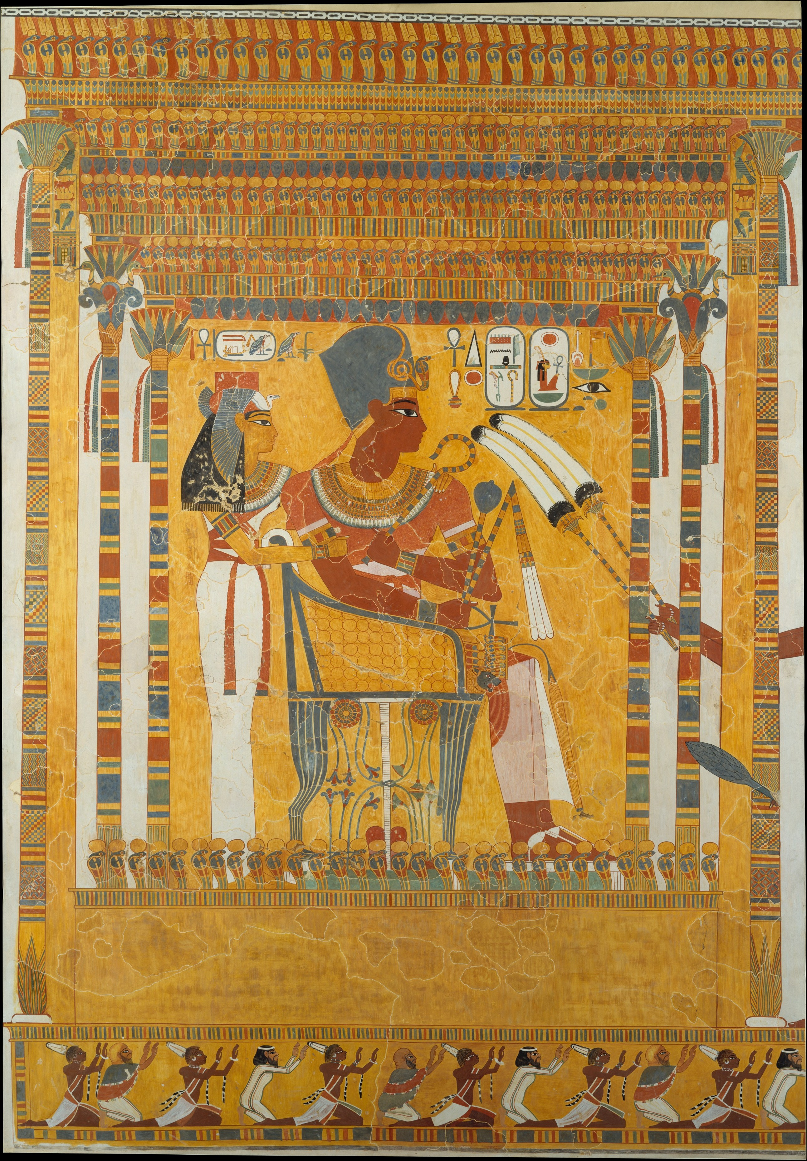 Facsimile, Anen, TT 226, Amenhotep III, Mutemwia